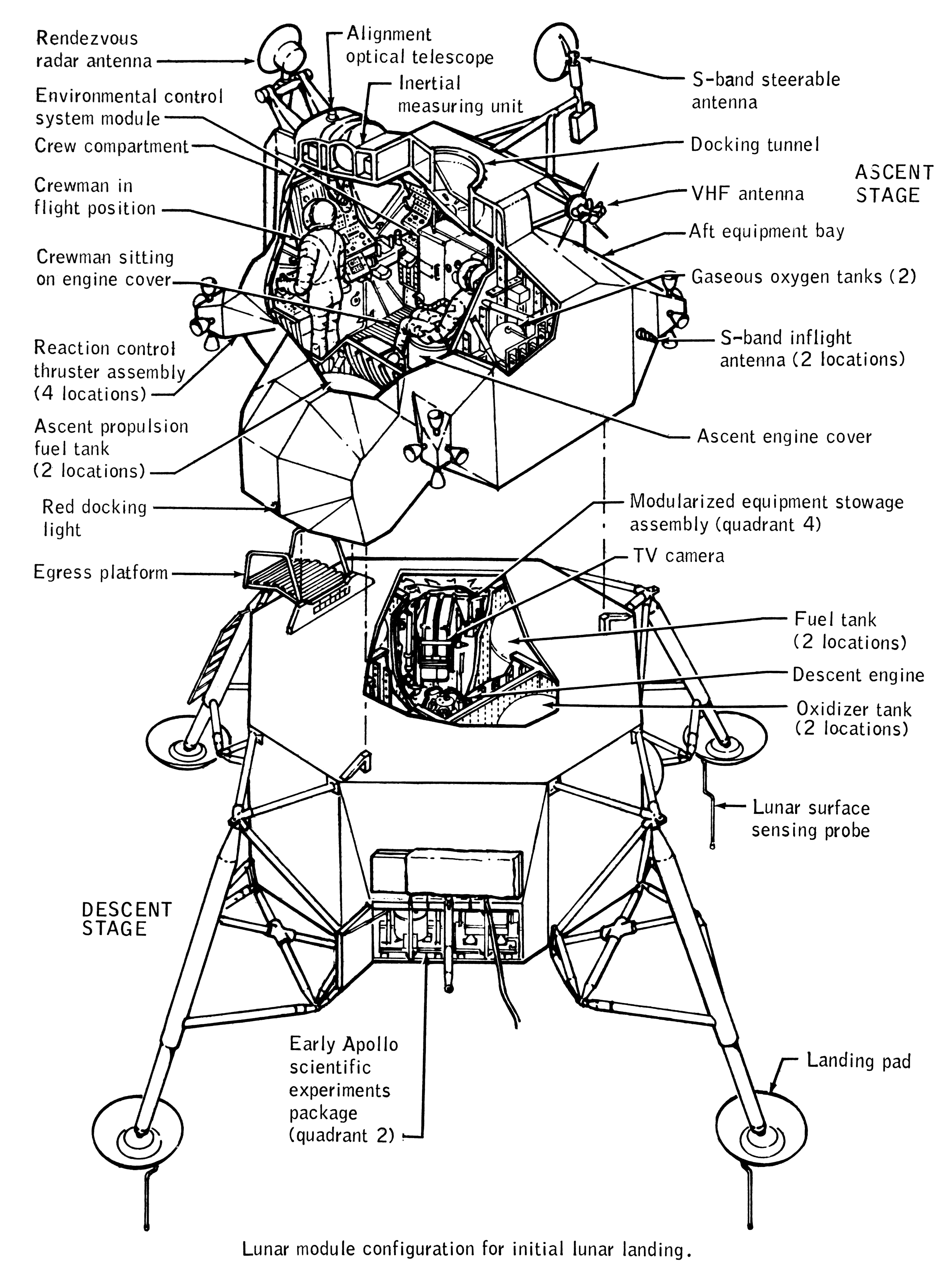 line drawing of lunar module spacecraft